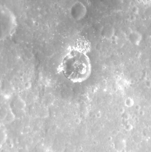 Martins crater on Mercury. MESSENGER NAC. Approximate north is at top. Emission Angle: 20.4 Incidence Angle: 29.2 Latitude: -8.1 Longitude: 55.1 Phase Angle: 49.6